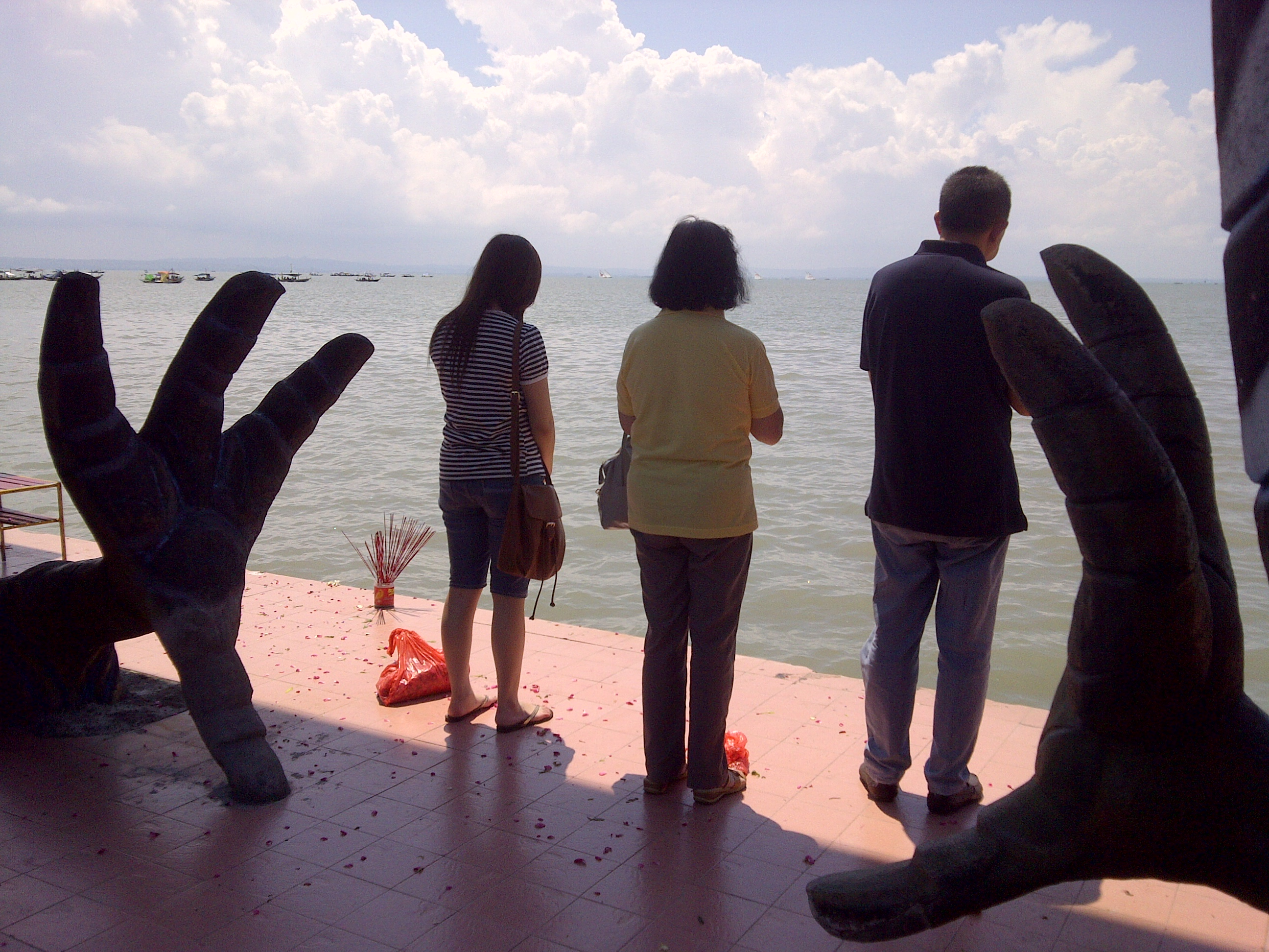 An Chinese-Indonesian family prays for their deceased members at Sanggar Agung Temple, Surabaya